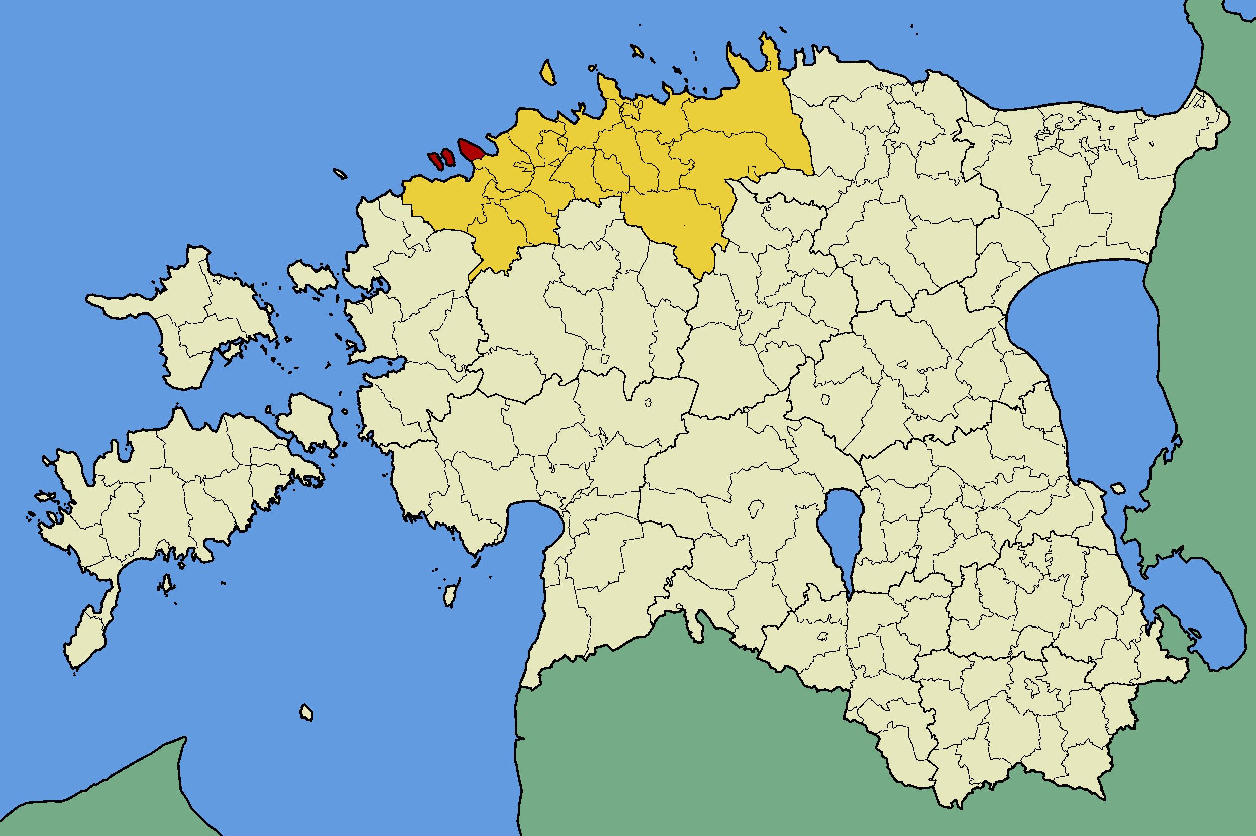 Map of Estonia with borders of municipalities (parishes). Harju county and Paldiski town municipality emphasized.